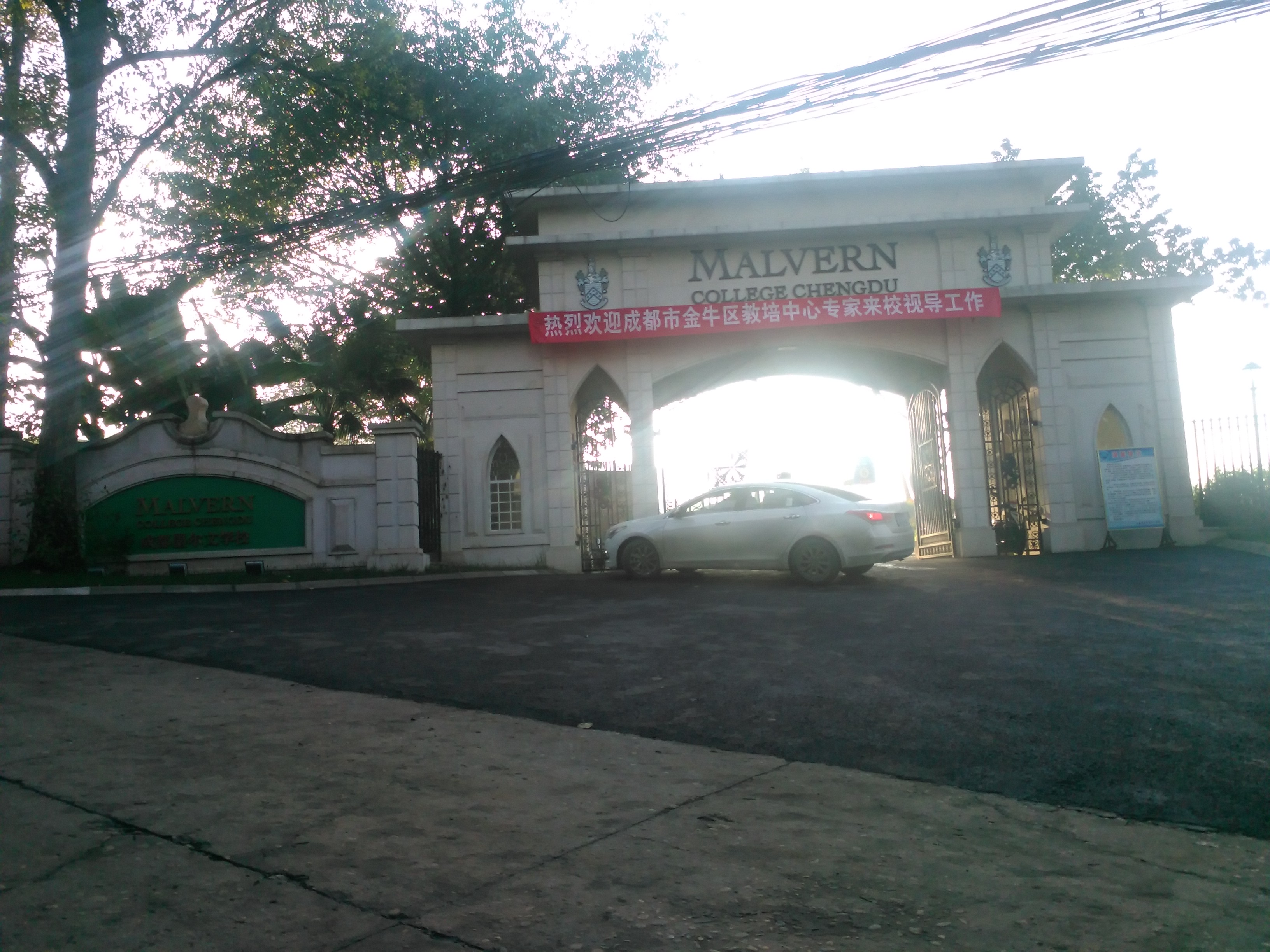 Malvern College Chengdu